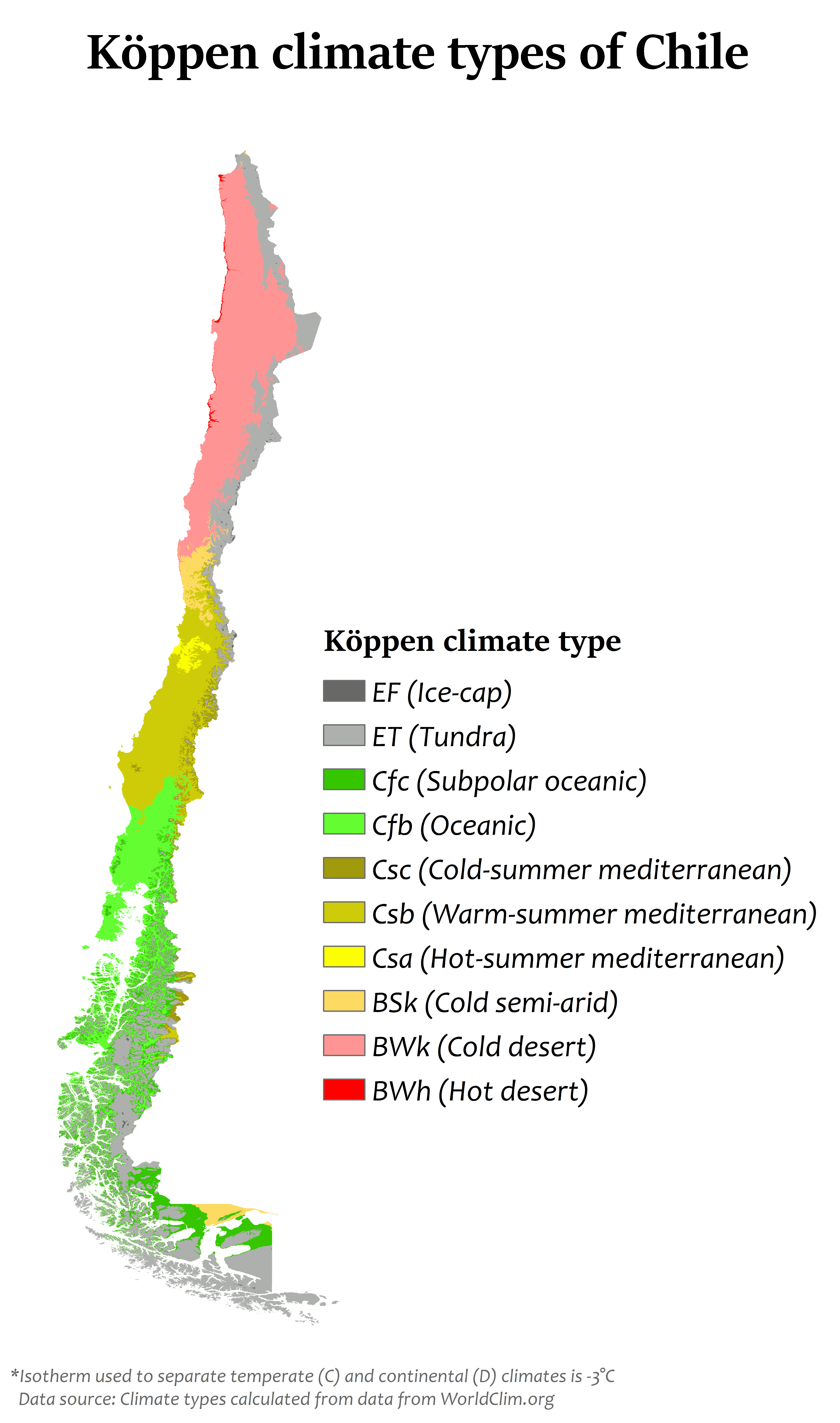 Köppen climate types in Chile